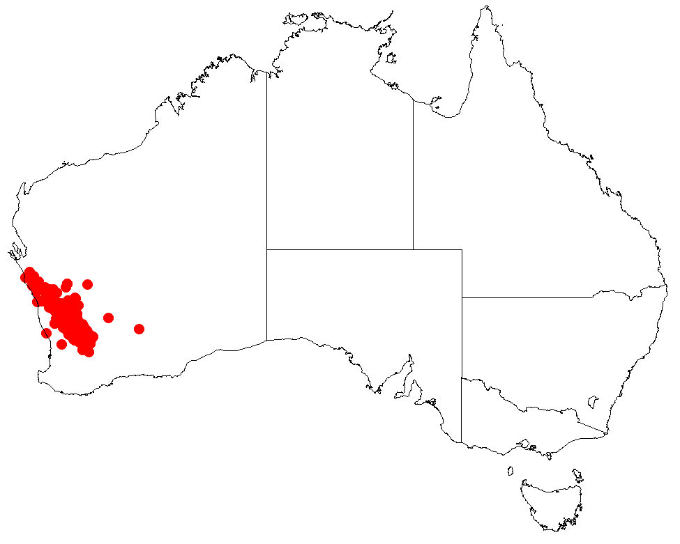 Acacia acuaria Occurrence data from Australasia Virtual Herbarium downloaded from on 8 December 2018